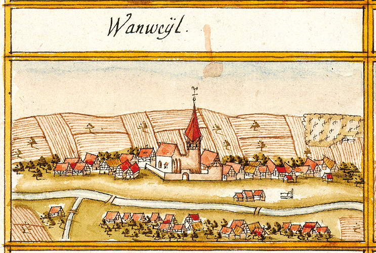 View of Wannweil from the forest register books created by Andreas Kieser